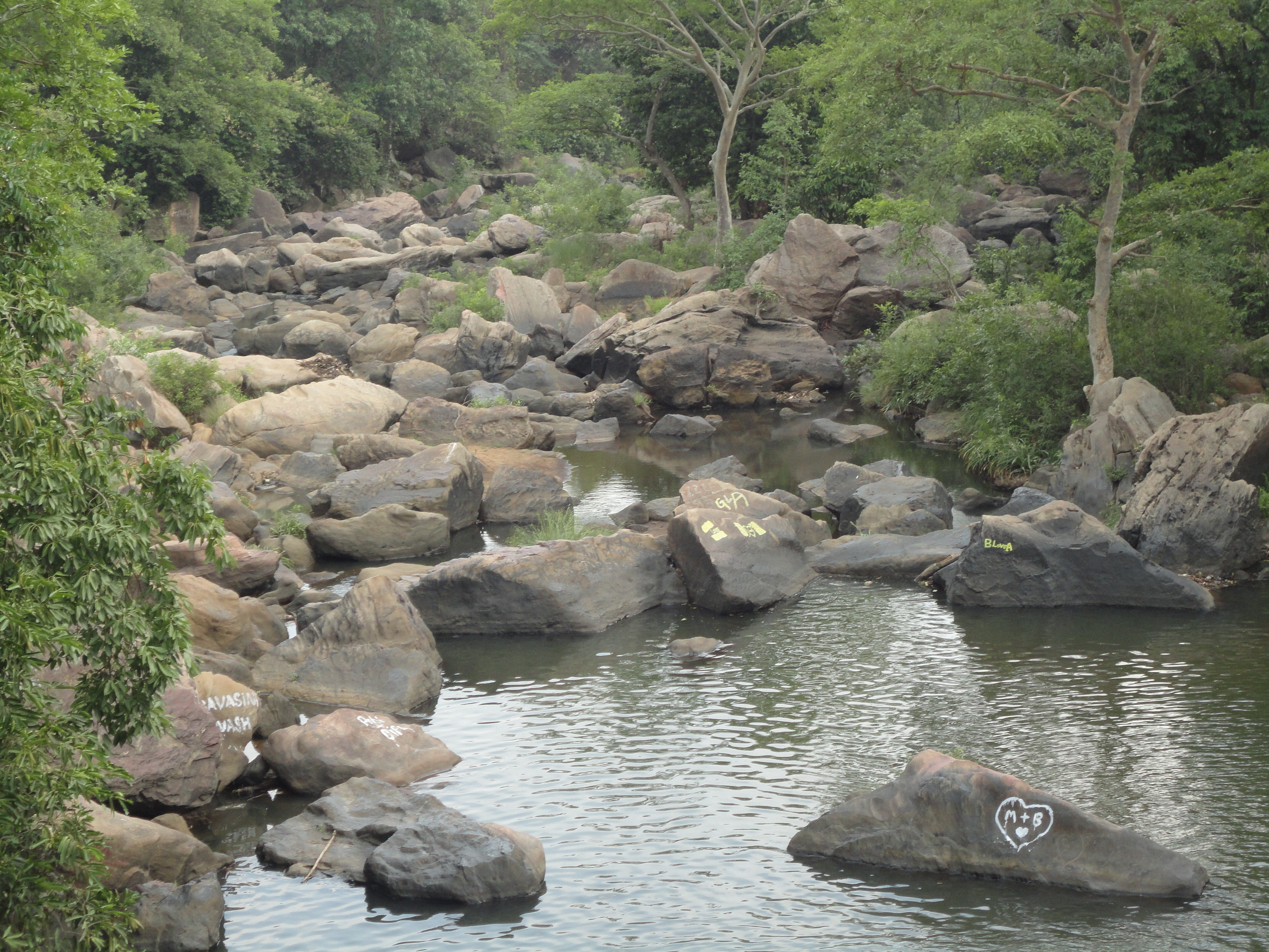 Scenic picnic spot 35 kms away from Belpahar